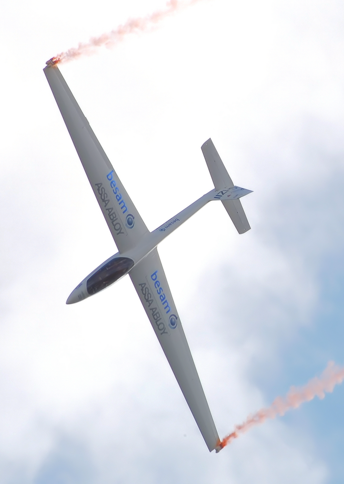 Swift S-1 glider (G-IZII), built 1993, performs during the Swift Aerobatic Team Display at Kemble Battle of Britain Weekend, Cotswold Airport, Gloucestershire, England. The Swift Team display is a Swift glider doing aerobatics (such as continuous rolls and flying upside down) while on tow by a Piper Pawnee. The Swift is then released to perform solo aerobatics (as seen here) and a landing. A Silence SA180 Twister propeller aircraft performs aerobatics around the ensemble. Photographed by Adrian Pingstone in September 2009 and released to the public domain.